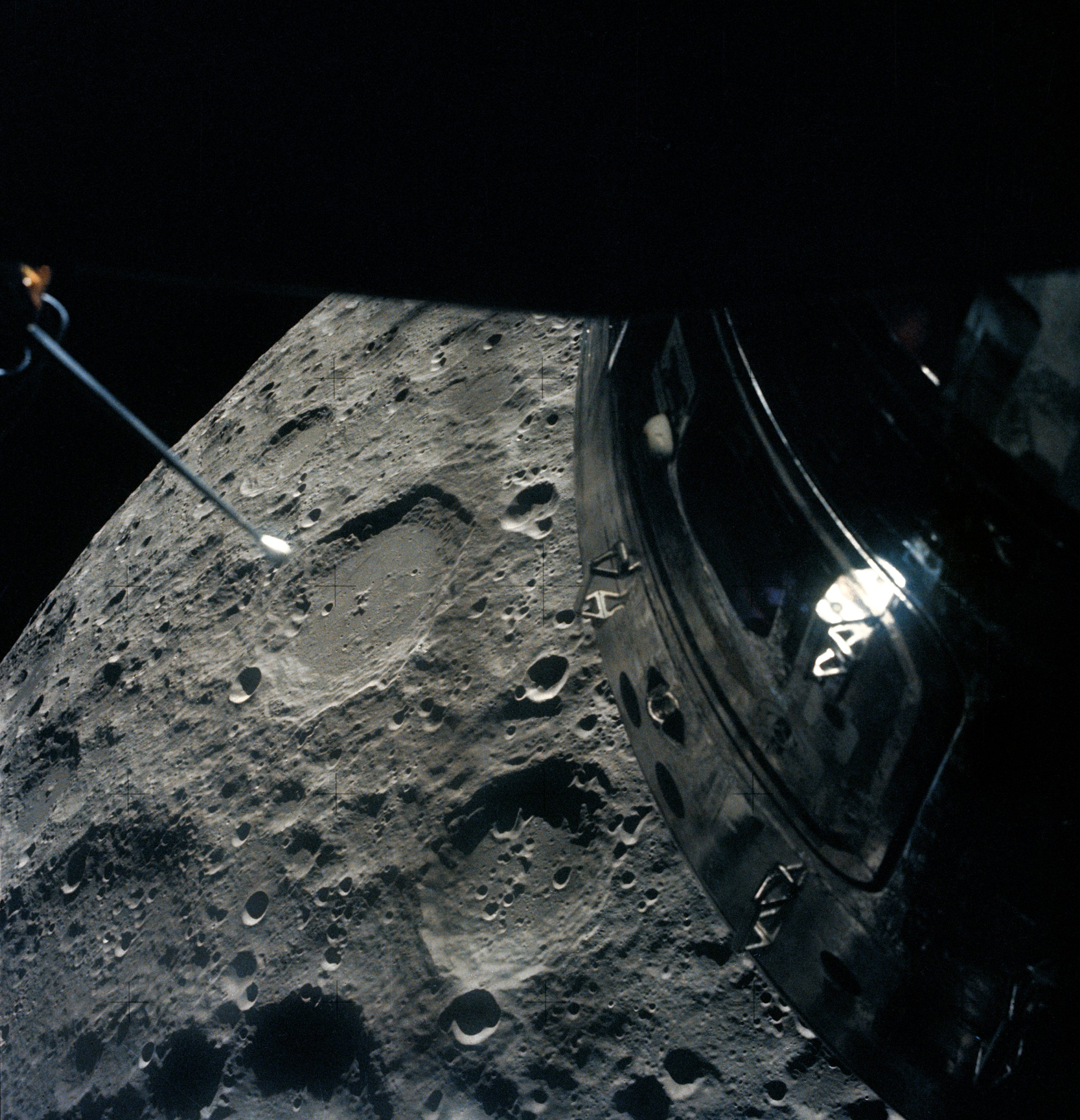 The crew of Apollo 13 photographed the Moon from their Lunar Module "life boat" as they passed by it. The shut-down Command Module is visible out the overhead rendezvous window.